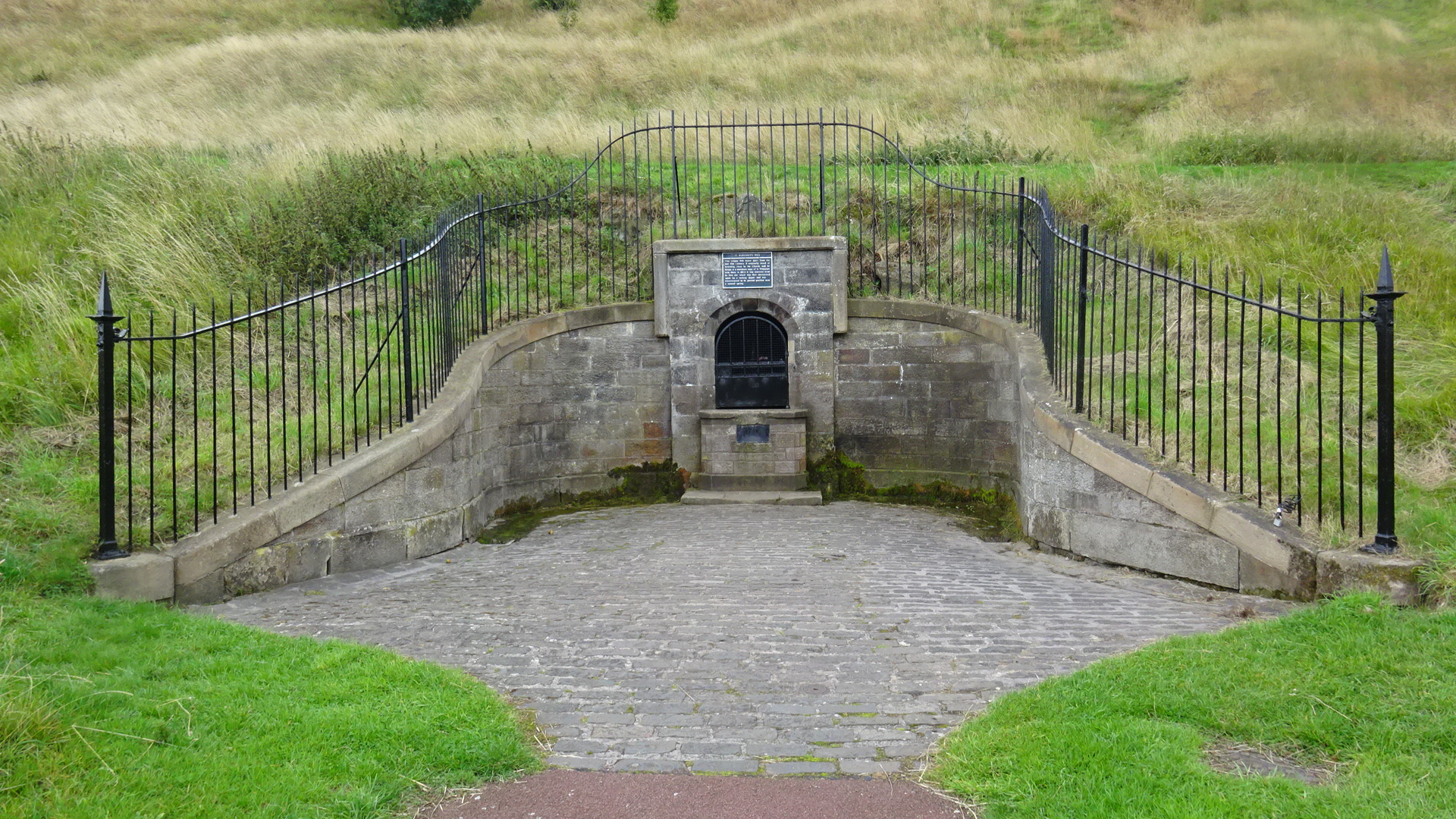 St Margaret's Well, full exterior view, Holyrood Park, Edinburgh